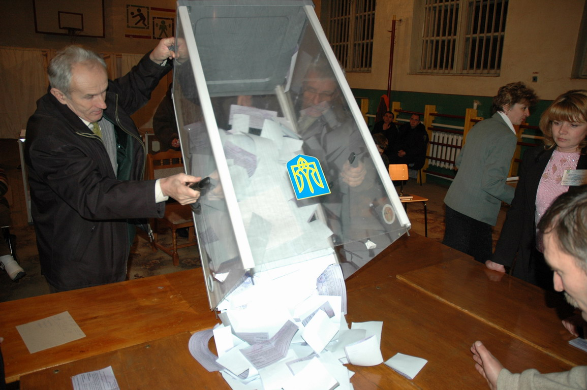 The counting procedure (ballot box opening) at a polling station in Svalyava, during the 3rd round of the 2004 presidential election of Ukraine